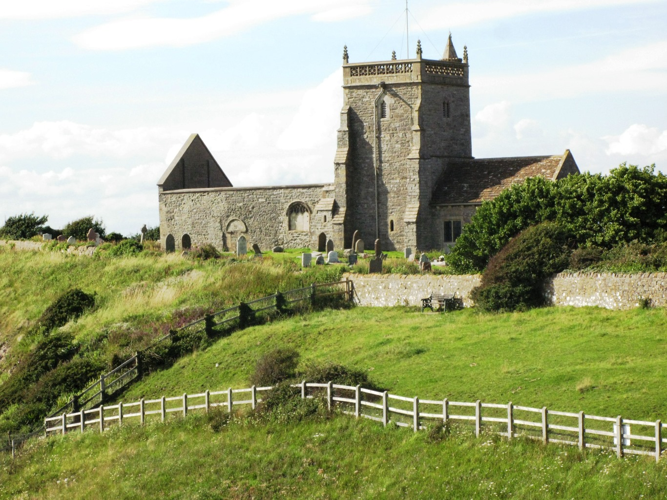 The old church of St Nicholas at Uphill, North Somerset, England, viewed from the south.